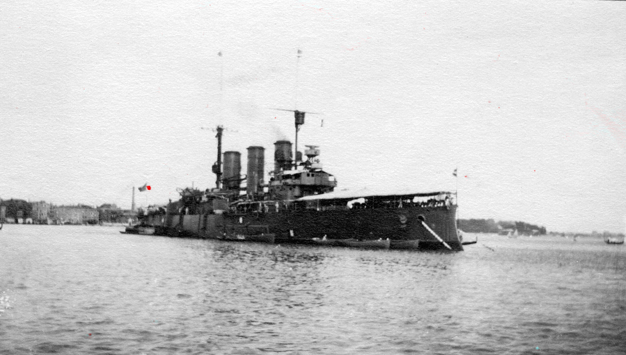 HM Ship Pisa. The original picture, scanned by Emiliano Burzagli, belongs to the Private archive of Burzaghi family, Italy.